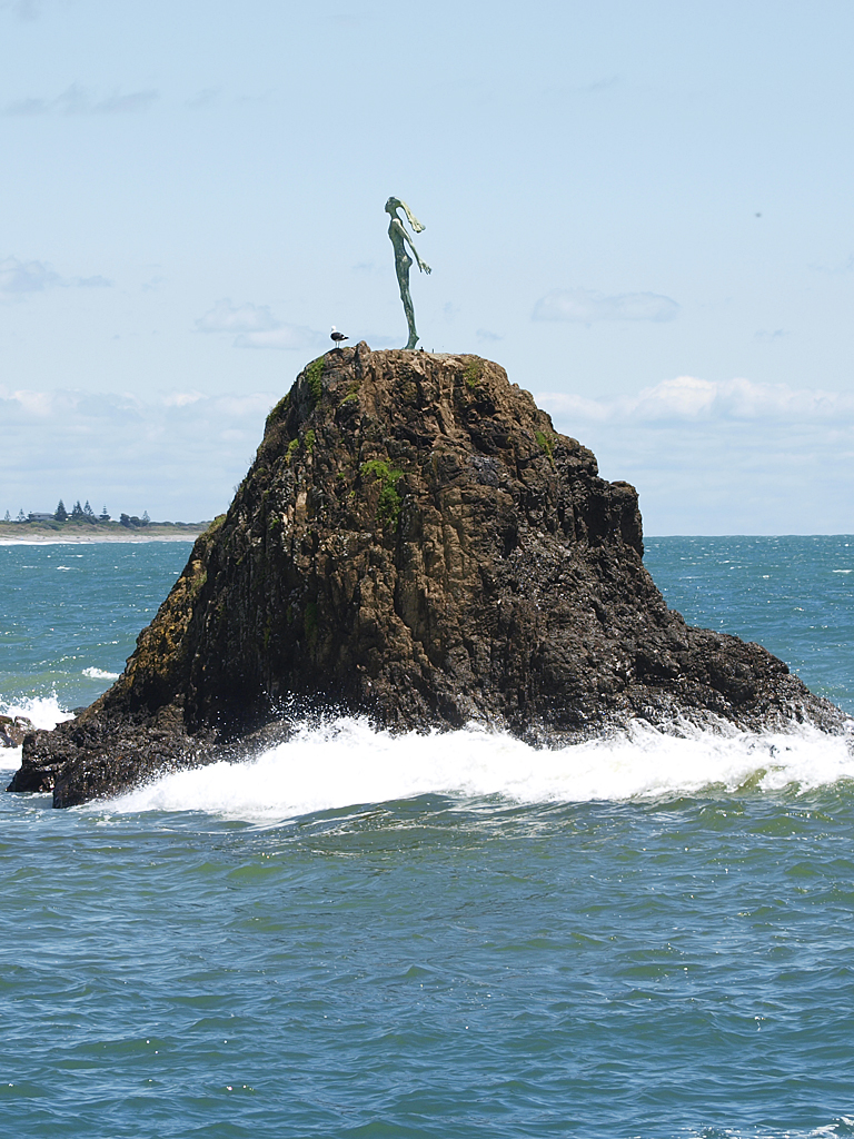 Wairaka sculpture, Whakatane, Mouth of Whakatane River, Bay of Plenty, New Zealand. Legend: Wairaka was the daugther of Maori Chief Toroa some hundreds of years ago. She rescued the canoe of her tribe